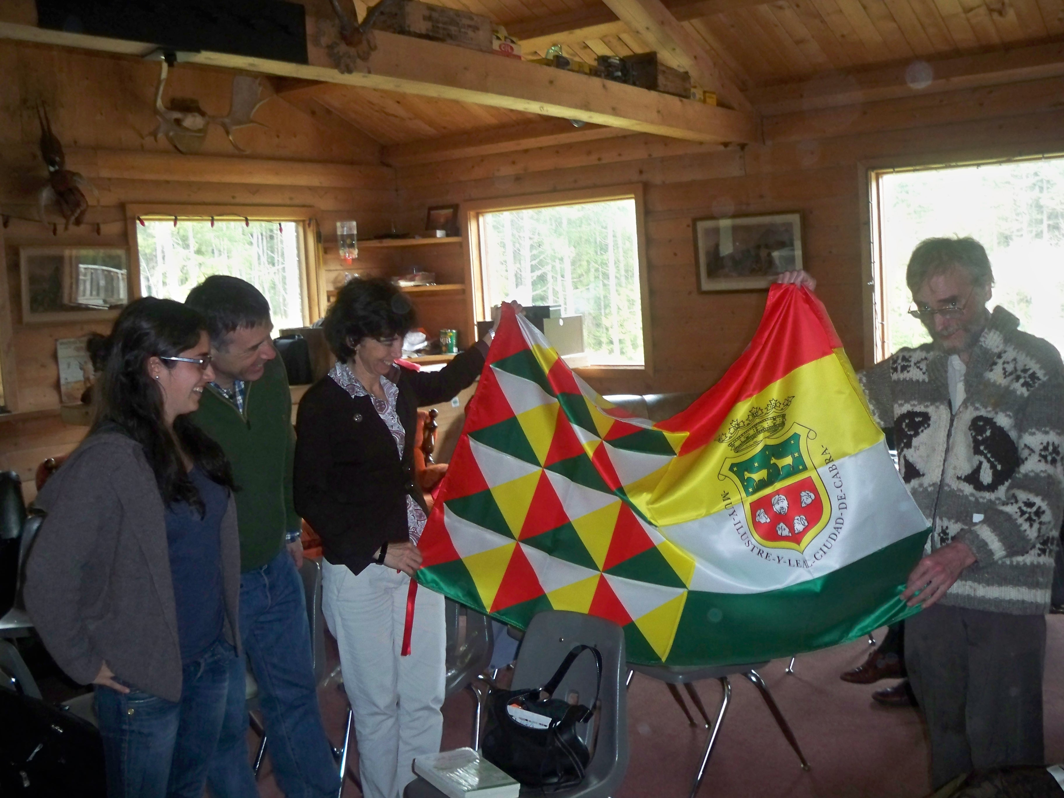 Almudena Alcalá-Galiano presents flag of Cabra to Galiano Island at AGM of the Museum Society. Cabra was the home of Capt. Dionisio Alcalá-Galiano (1775-1805).